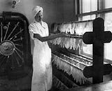 Nurse Bernice Simmet selects a pair of rubber gloves for use during an appendectomy, Fort Benning, GA 20 July 1941. SC 134055